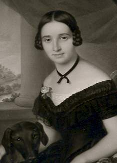 Portrait of Marie Johanna von Nathusius, nee von Meibom - short before her wedding.